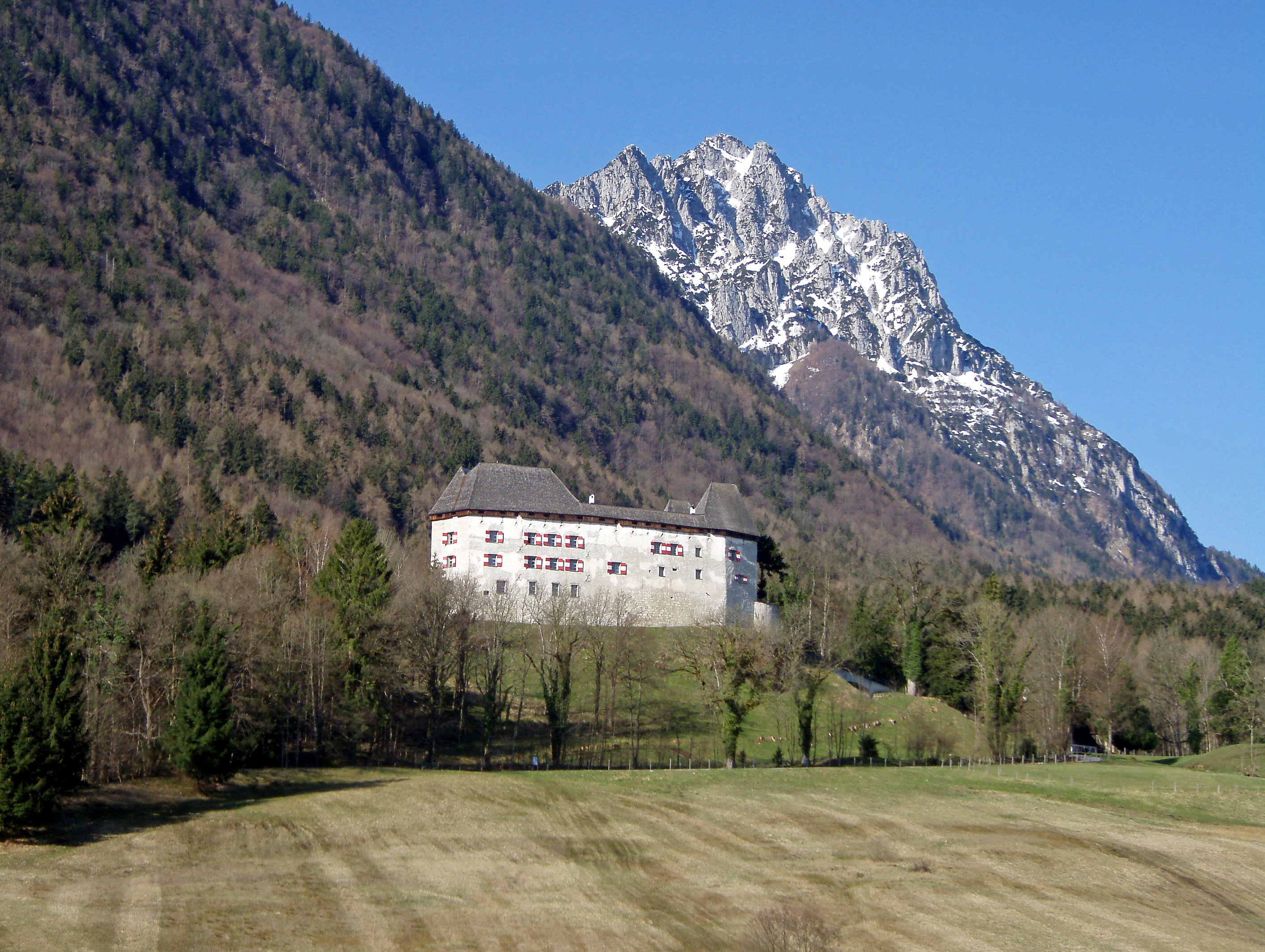 Castle Staufeneck in Piding, Berchtesgadener Land, Bavaria, Germany.